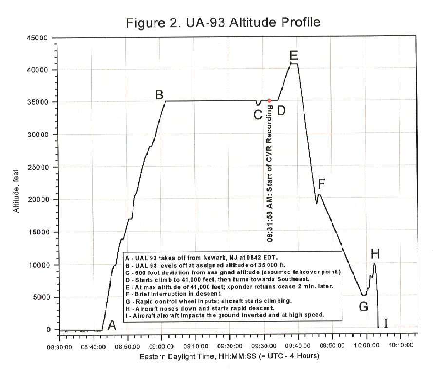 United Airlines Flight 93 altitude profile.